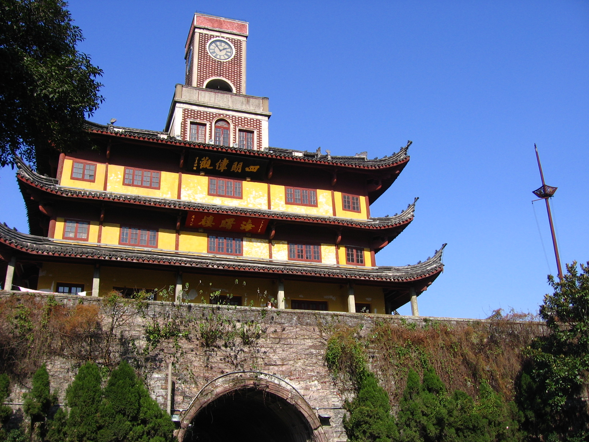 Drum Tower in Ningbo, China